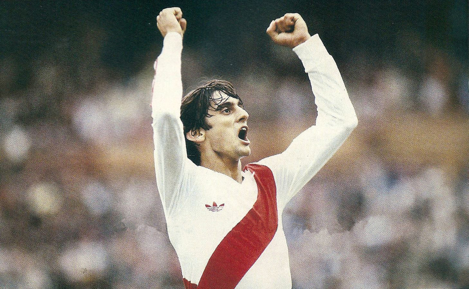 River Plate player Enzo Francescoli in 1984.